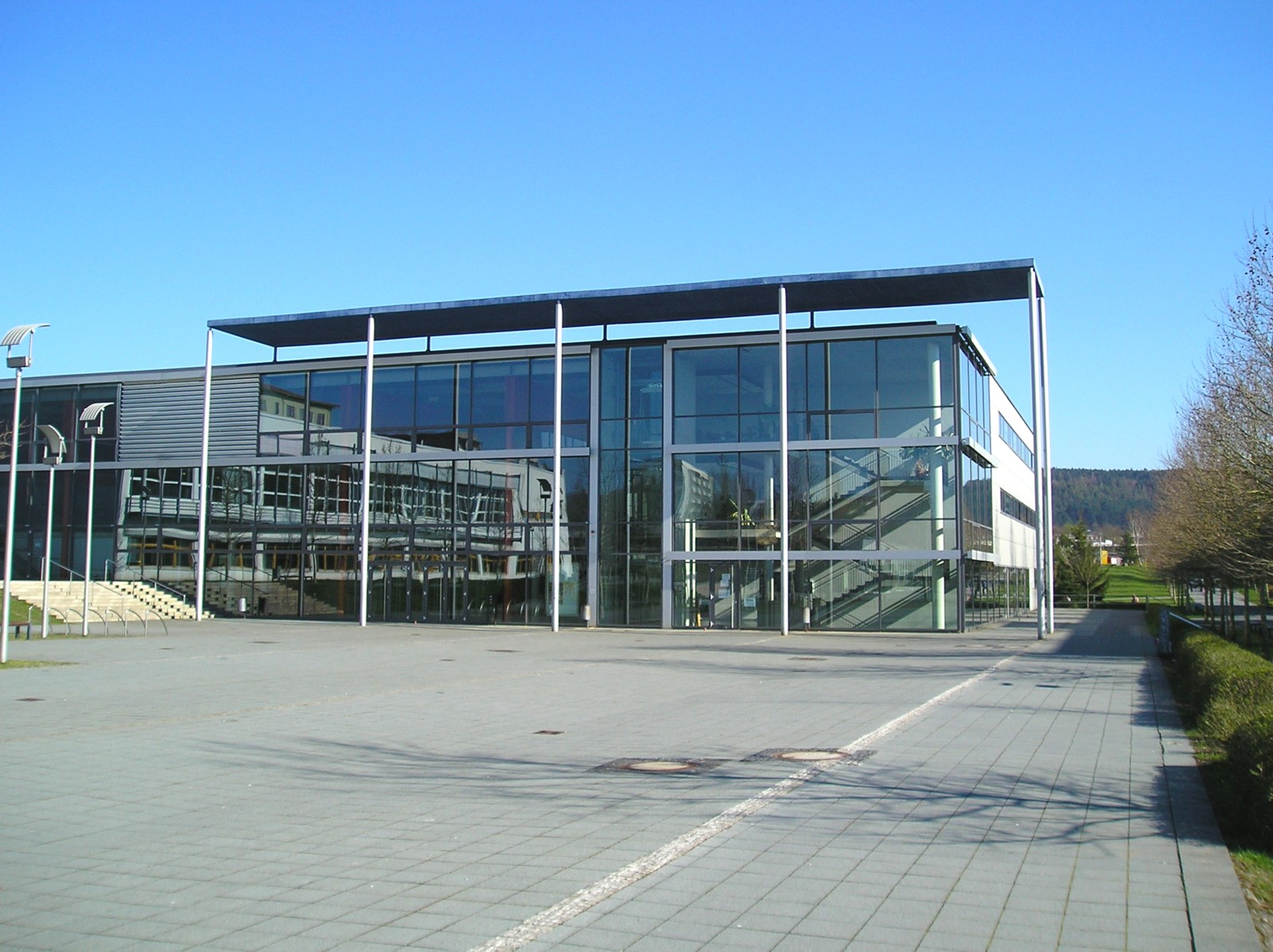 Sport- Culture- and Eventhall in Meiningen, Germany